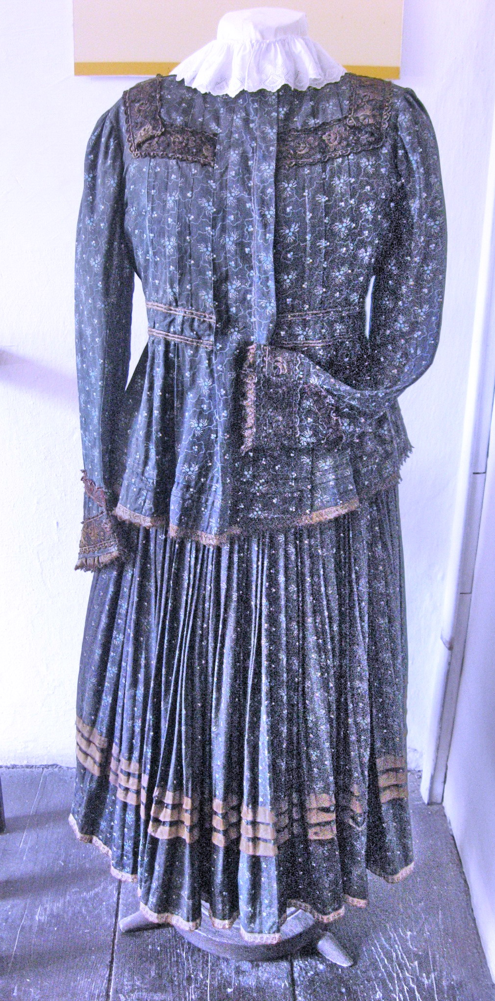 Clothing made from indigo printed cloth. Museum of Indigo Dyeing, Pápa, Hungary